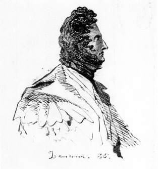 Portrait of the Duke of Zamorna by Branwell Bronte